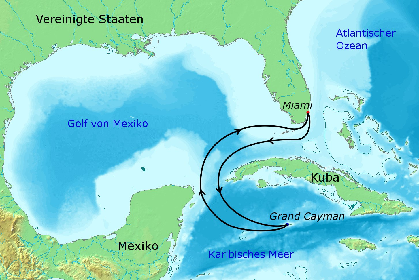 Map of the Gulf of Mexico showing the route of the Majesty of the Seas at the 70000 Tons of Metal Festival 2012